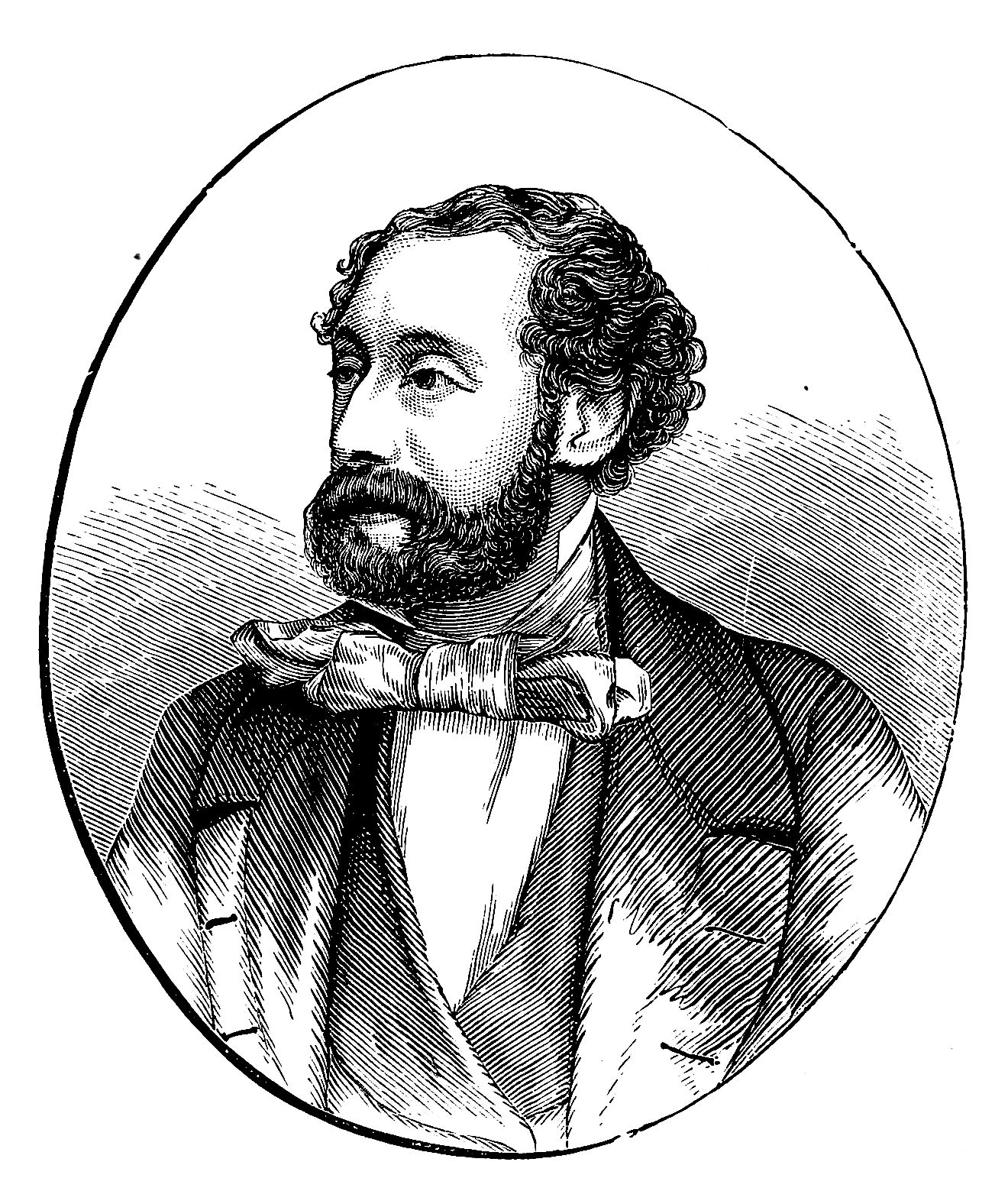 Portrait of musician Thomas Baker